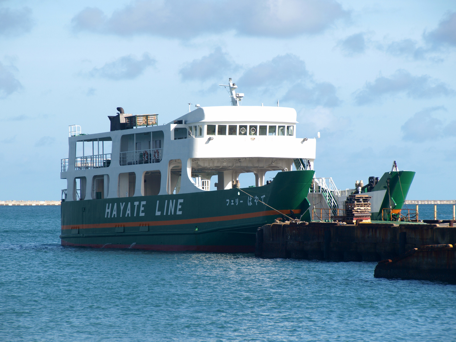 Ferry Hayate at Hirara Port, Miyako Island, Okinawa, Japan